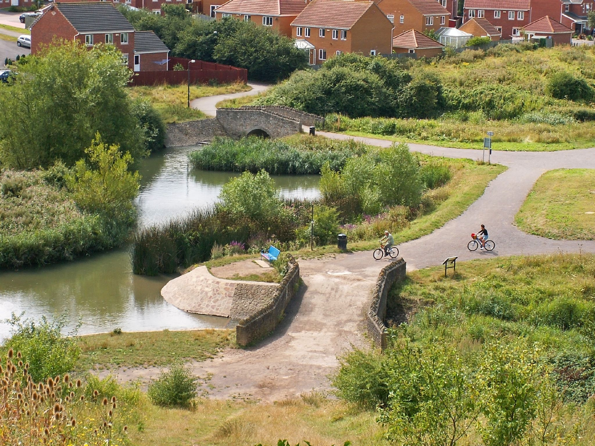 Three Brooks Lake in Bradley Stoke, Bristol, England.